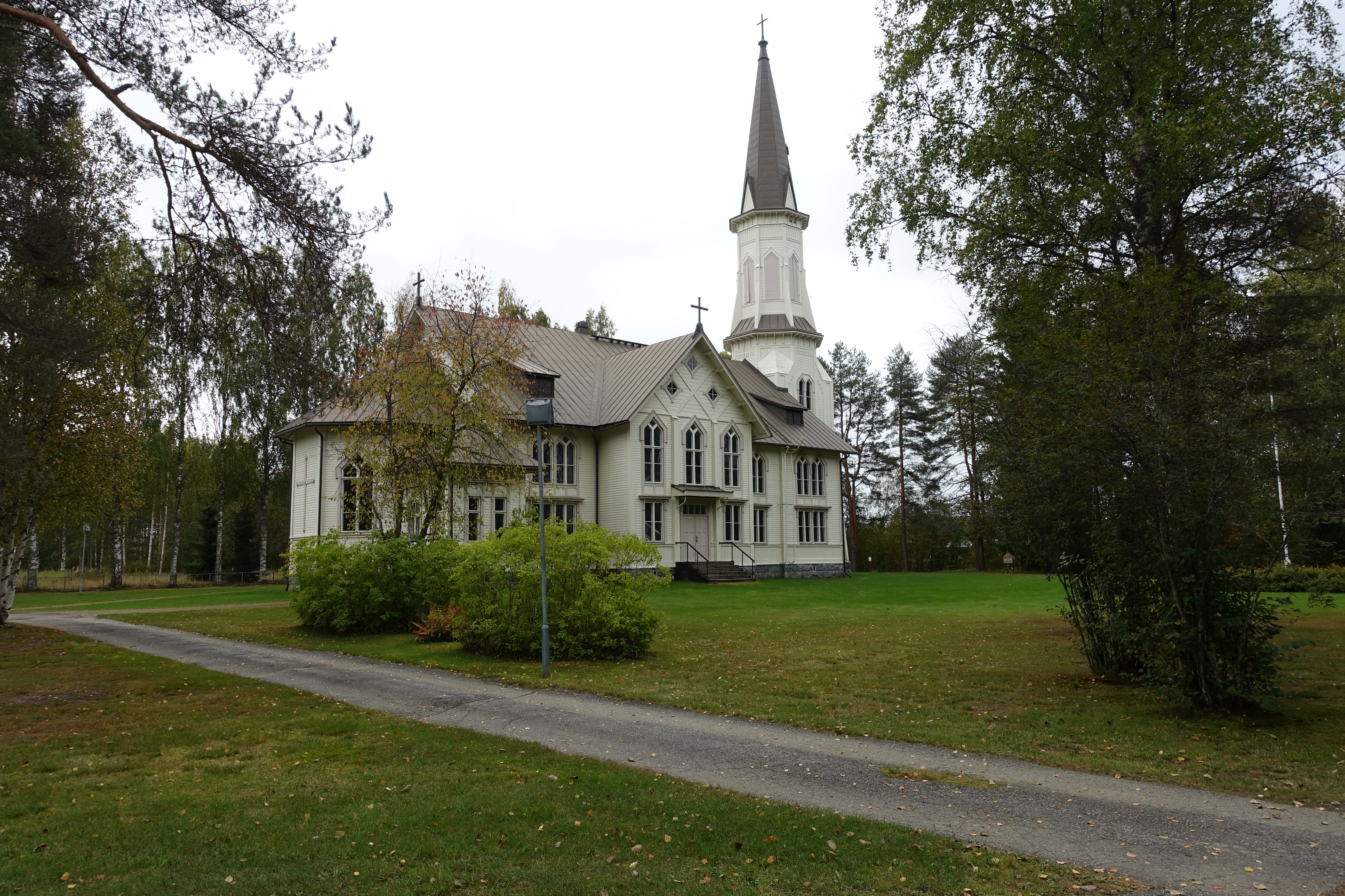 Viekijärvi church, located in Lieksa (Finland), photographed in september 2019 by Sakari Lintunen